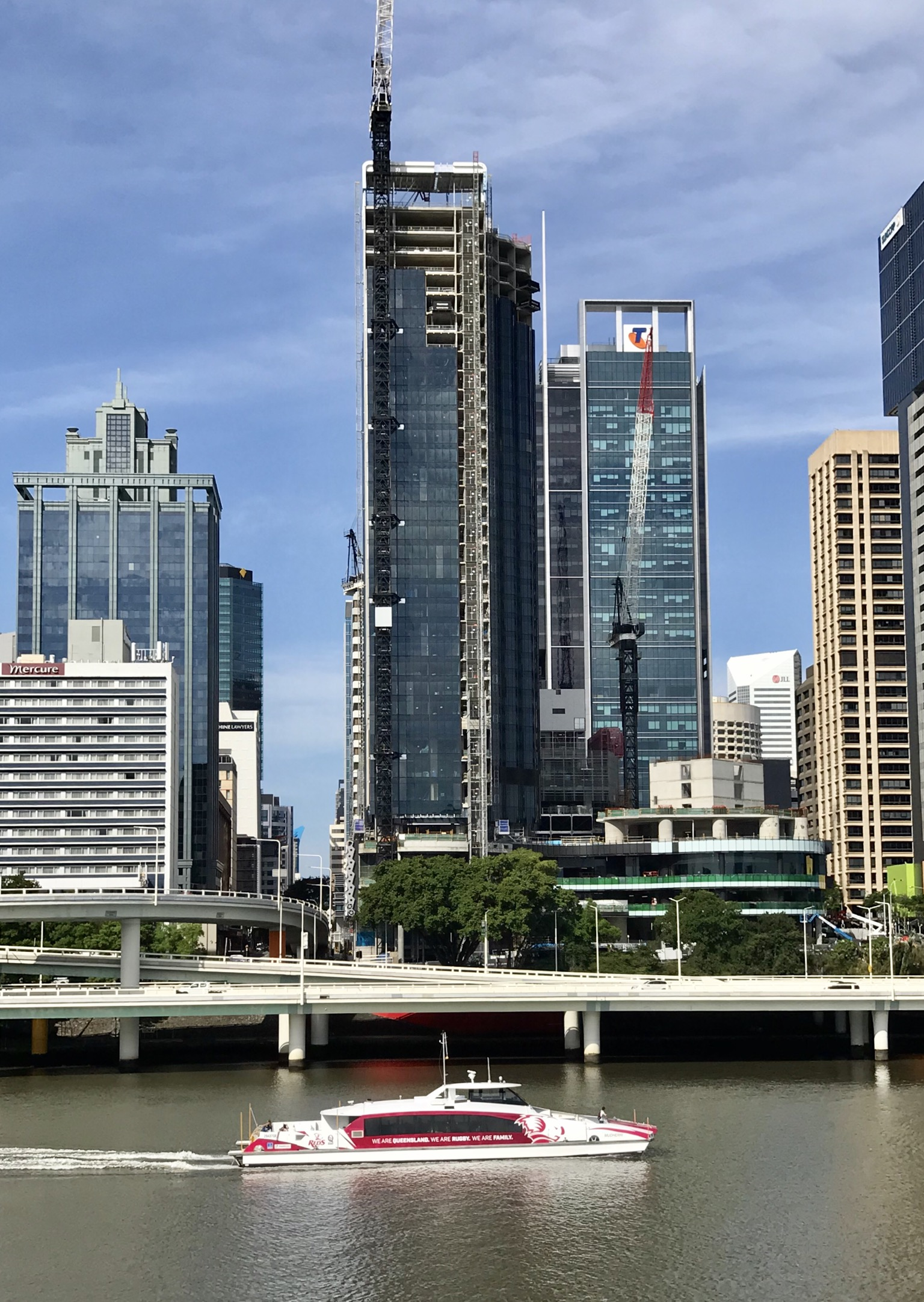 W Brisbane hotel in January 2018